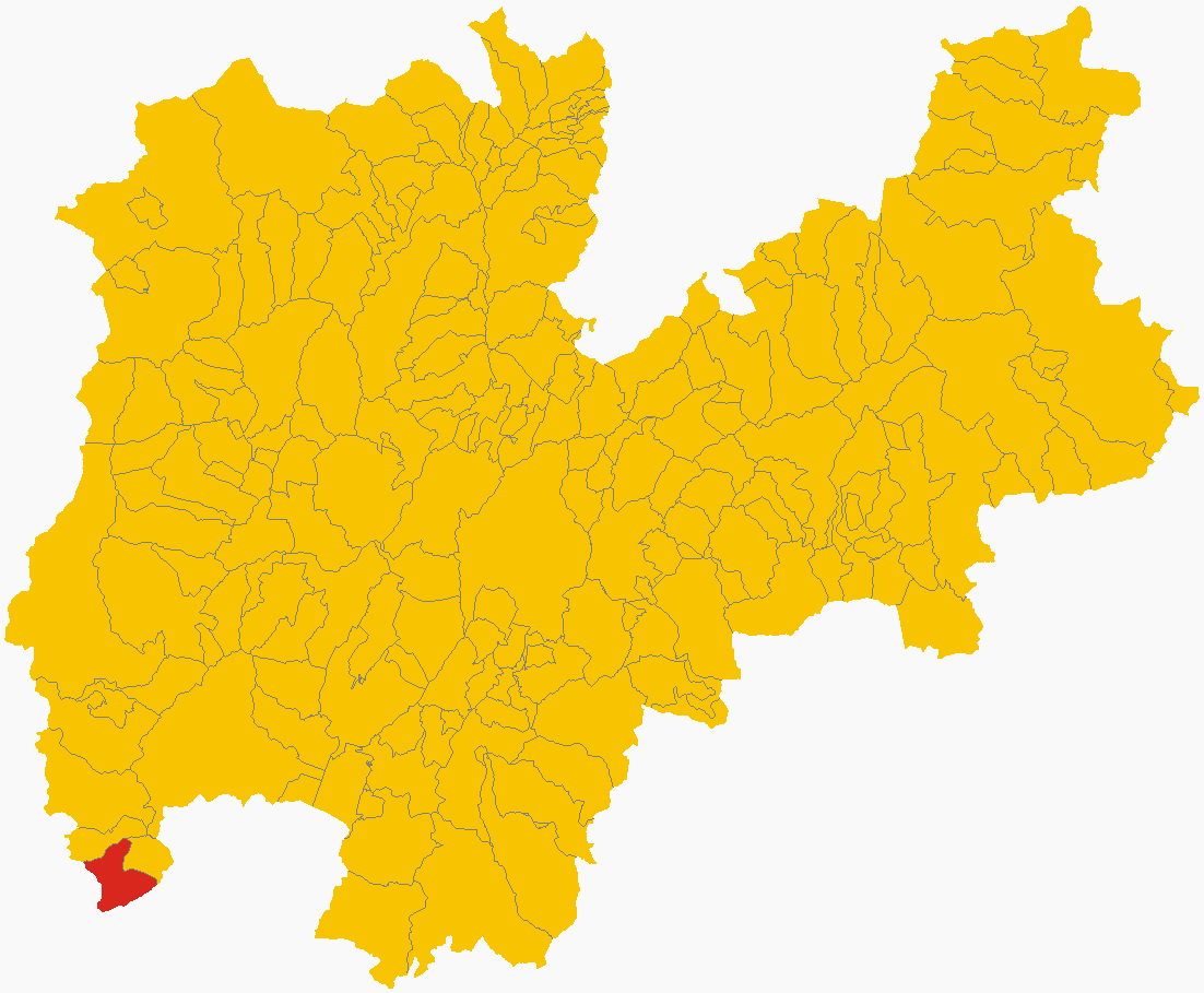 Hypothetical map of the comune of Valvestino in the autonomous province of Trento, with also the two others comuni of Magasa and Pedemonte, currently in the provinces of Brescia and Vicenza.